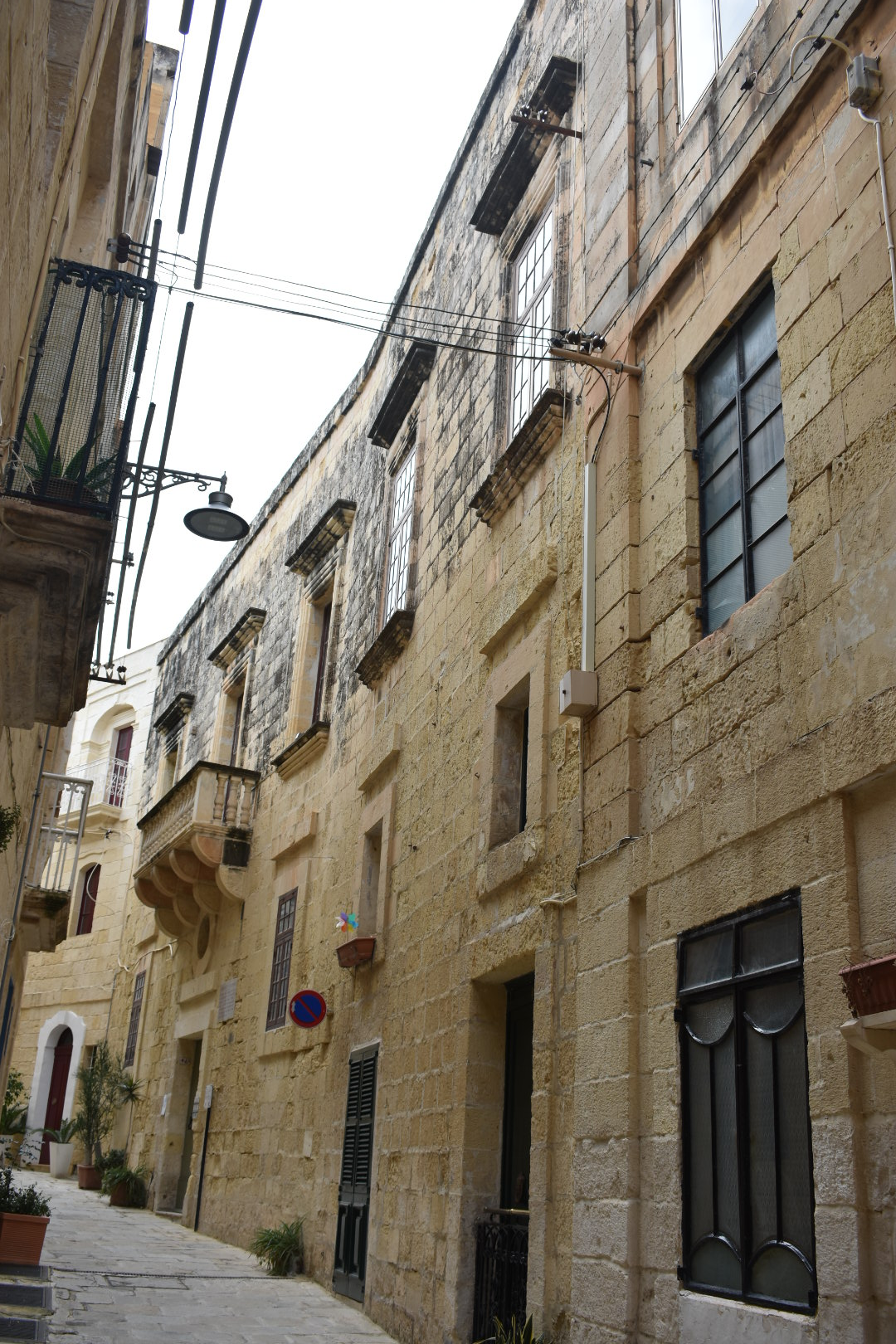 Auberge d' Angleterre This media is about Maltese cultural property with inventory number 01160.